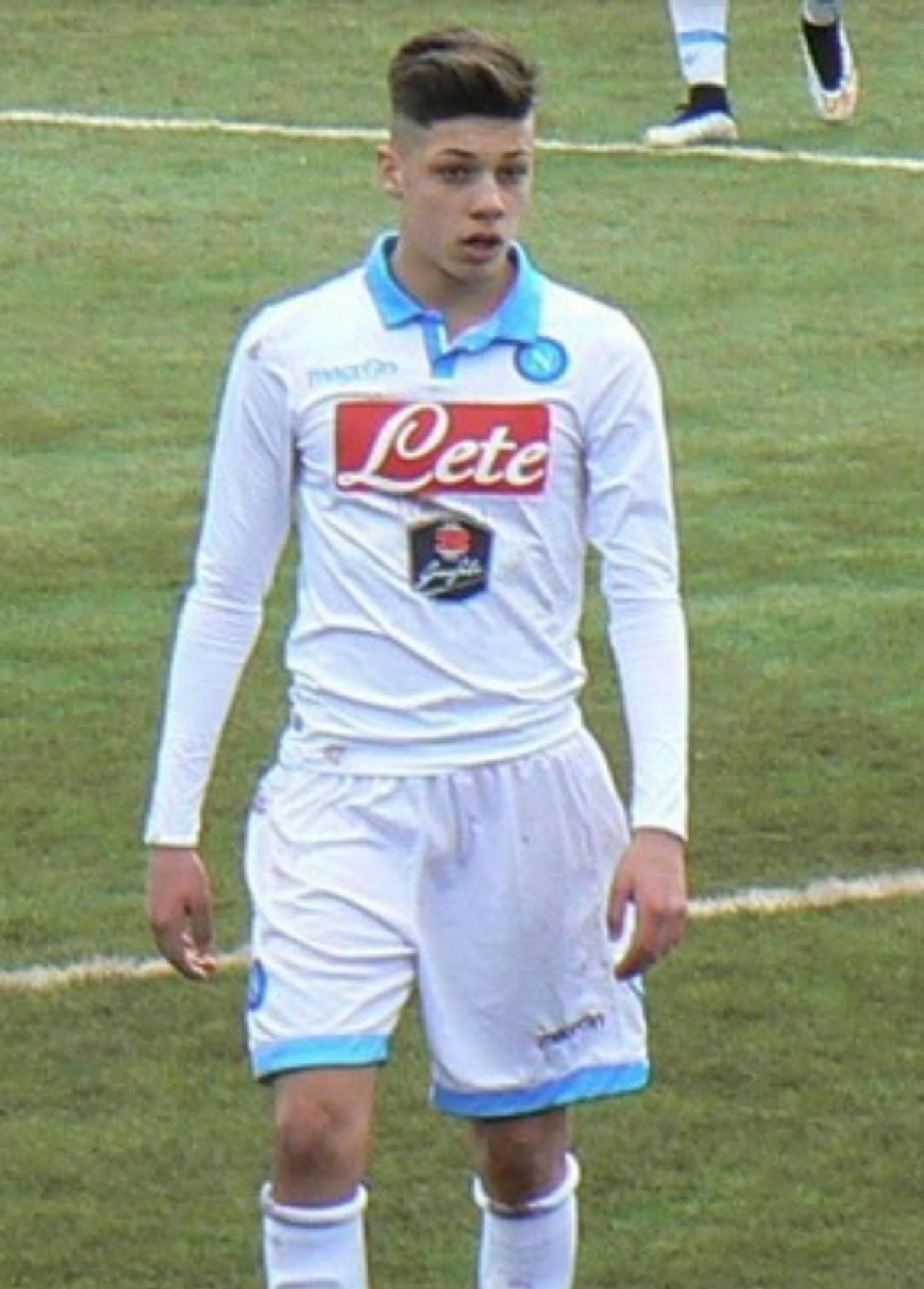 It's a Photo I took of Gaetano during a friendly game.